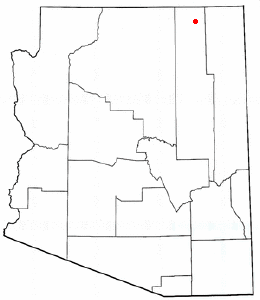 Locator map of Kayenta — in Navajo County. Arizona.